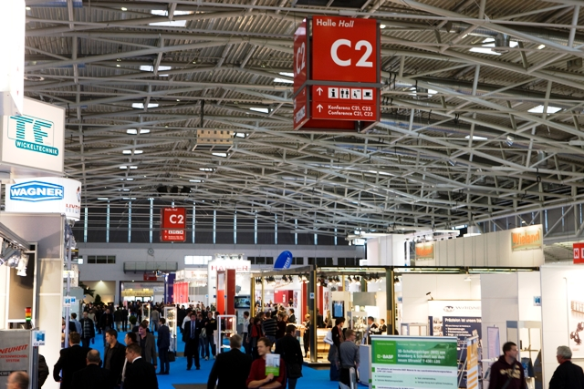 hybridica 2008: Hall C2